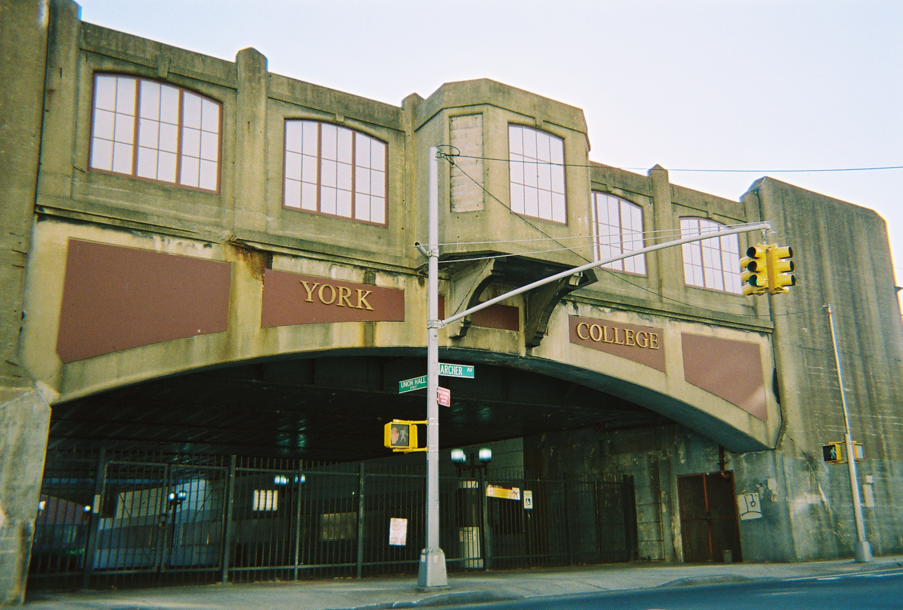 A shot of the facade of the former Union Hall Street (LIRR station) on Union Hall Street and Archer Avenue in Jamaica, Queens, New York City. Now one of the gateways to York College, City University of New York.